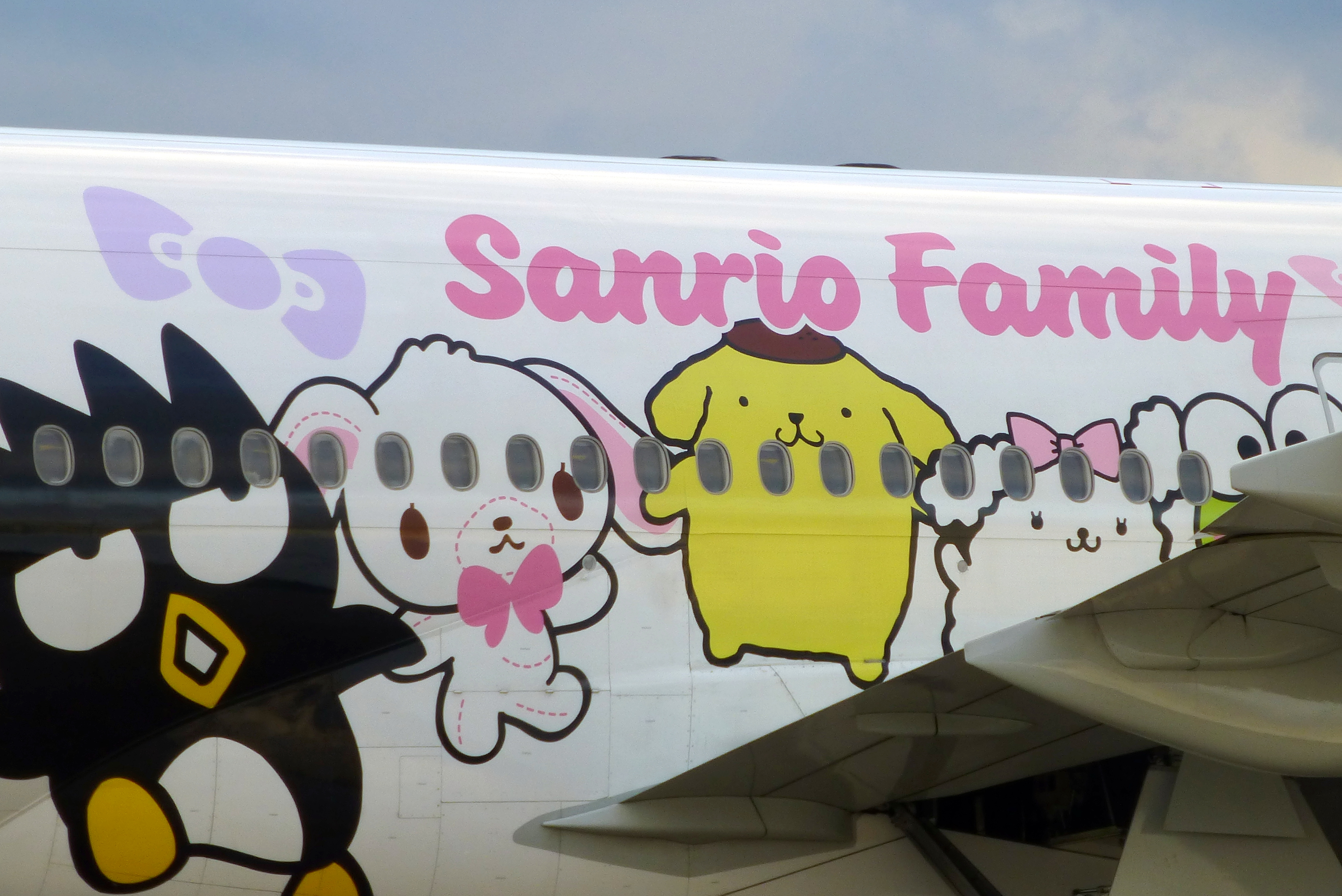 B-16703 Boeing 777-300 EVA Air with the Sanrio Family cartoon characters emblazoned on the fuselage.